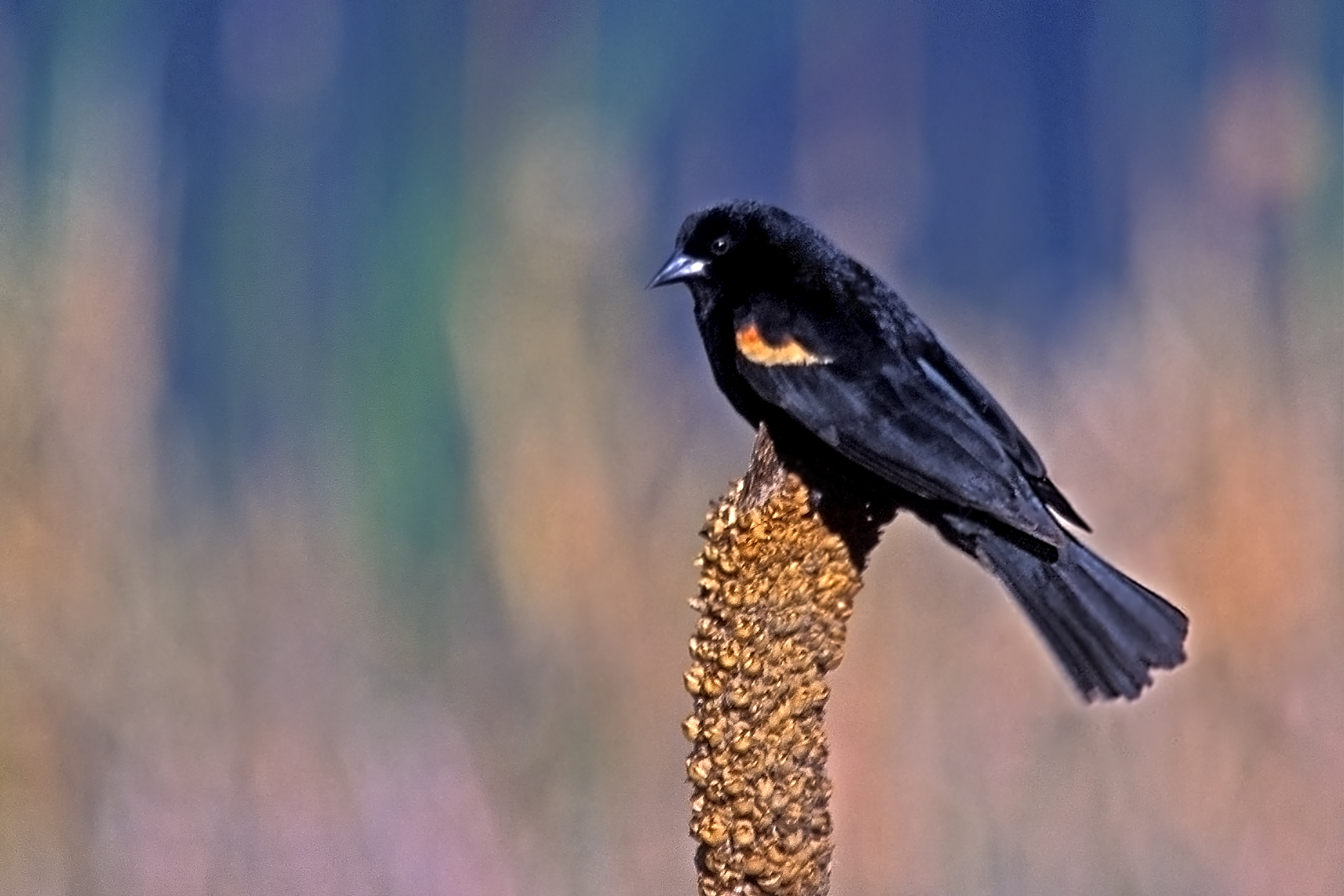 In May and early June when this bird is singing to get a female, from a reed or cattail, it is not easily made skittish by an observor. New Mexico.